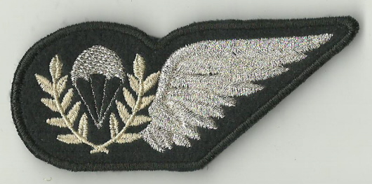 Para Wing instructor Netherlands